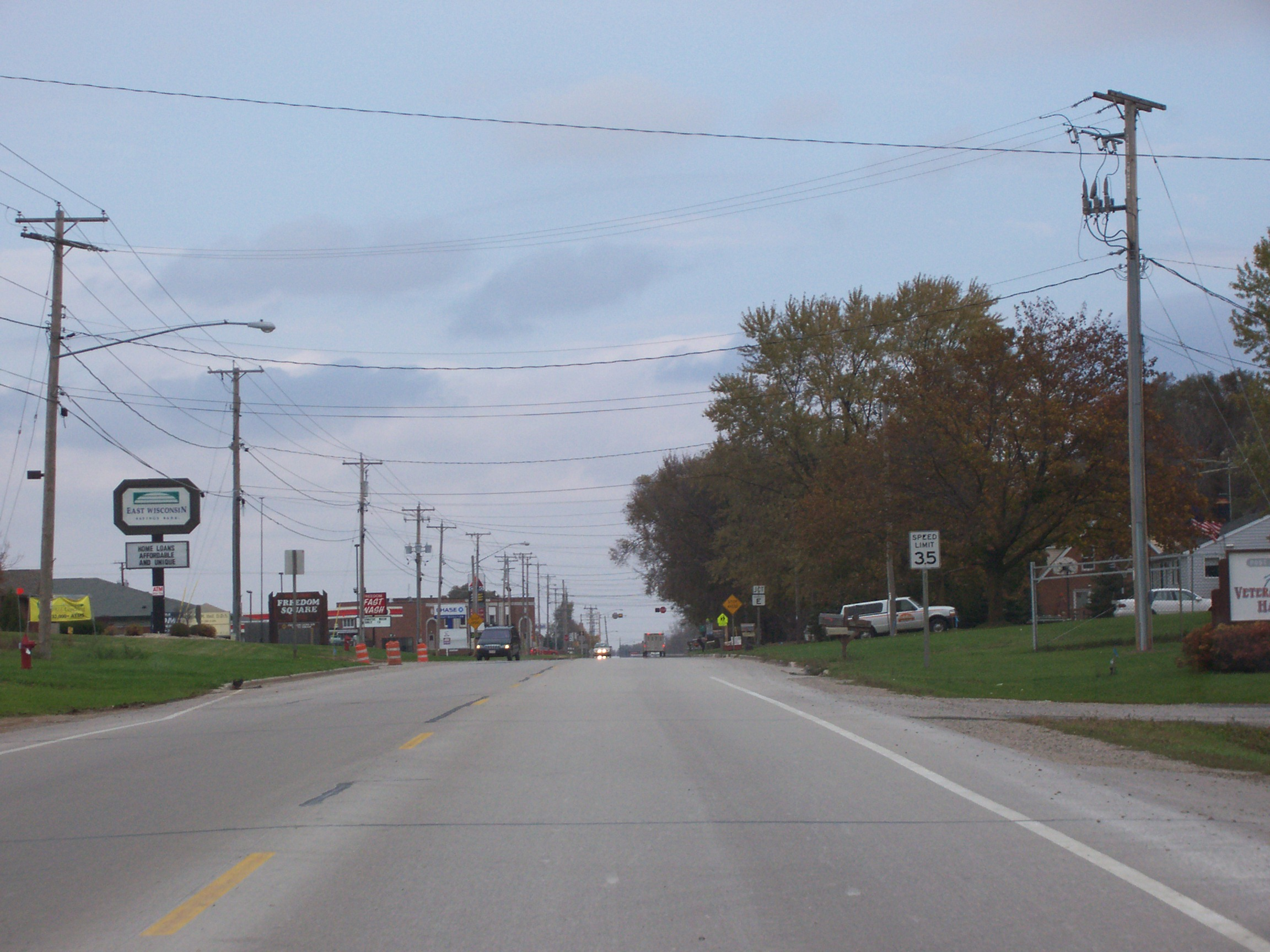 Looking north at Freedom, Wisconsin, USA on Highway 55 (Wisconsin). Taken October 20 2006 by myself.